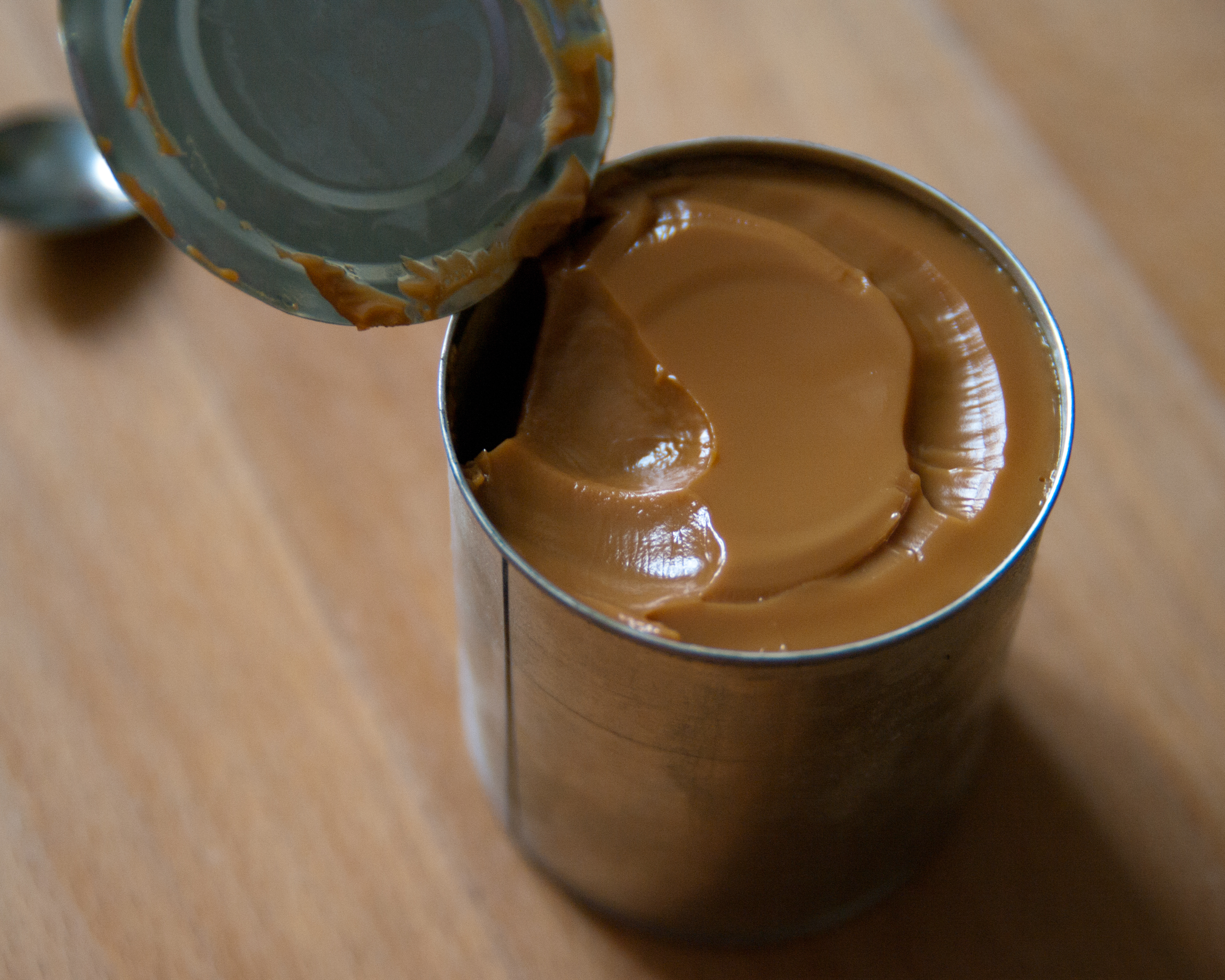 Sugared condensed milk boiled for several hours to become homemade Dulce de leche.